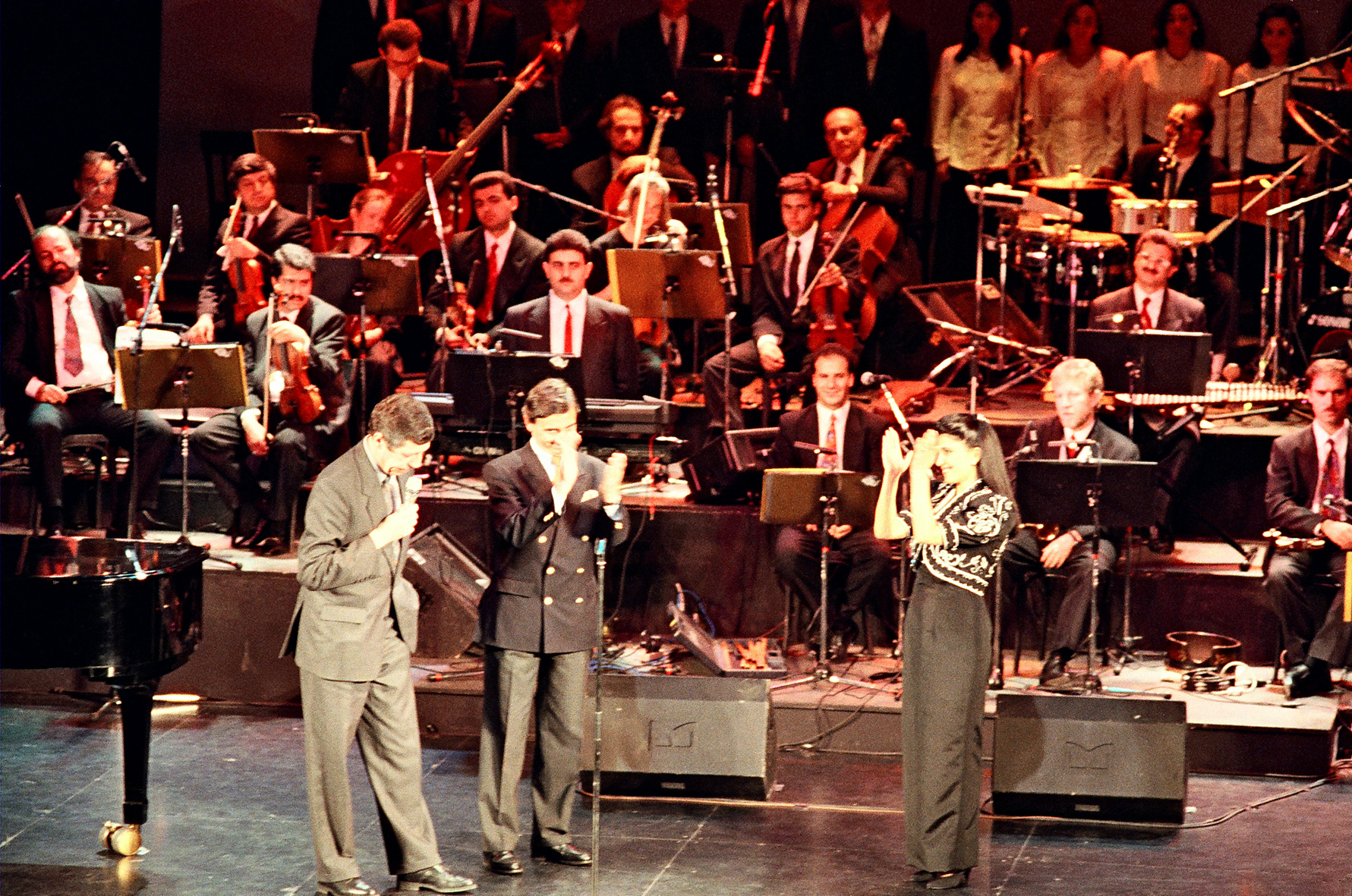 Majida El Roumi honored at l'Olympia in Paris for her first time on its stage in 1993.